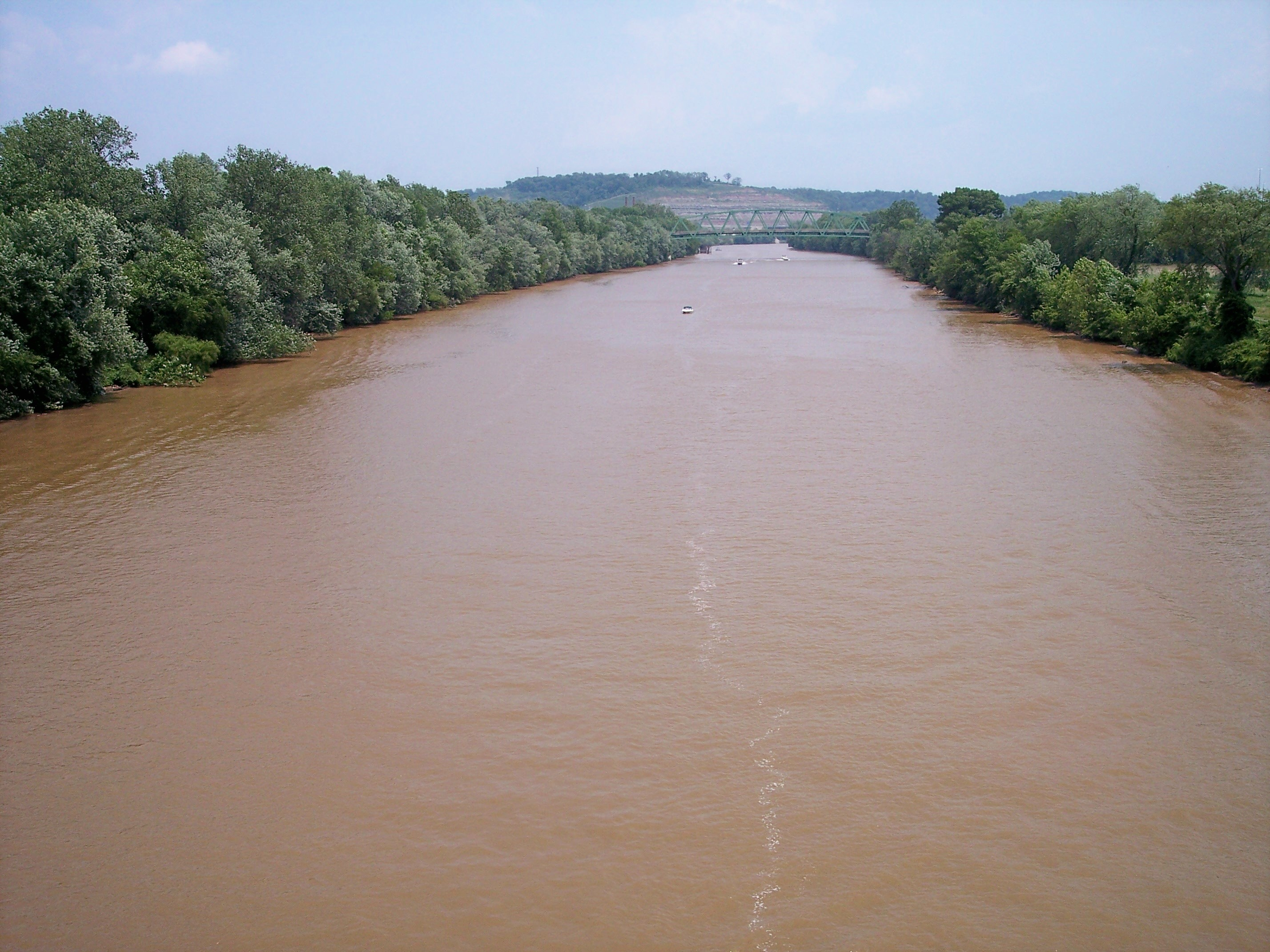 An upstream view of Little Kanawha River from the 5th Street/Division Street bridge in Parkersburg, West Virginia. The East Street Bridge is visible in the distance.